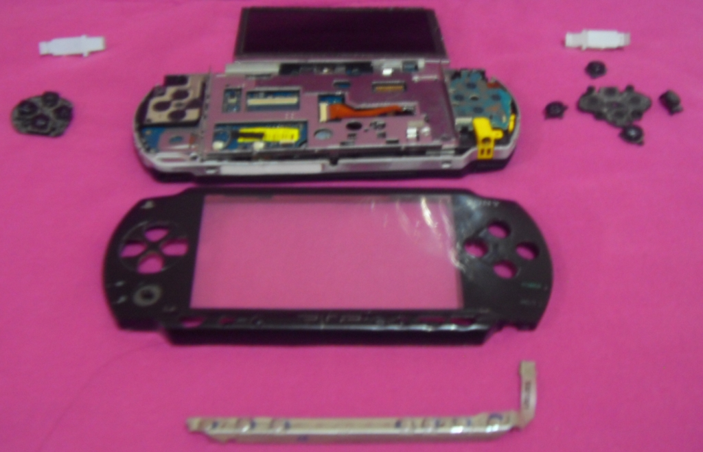 Partes fisicas principales de un PSP